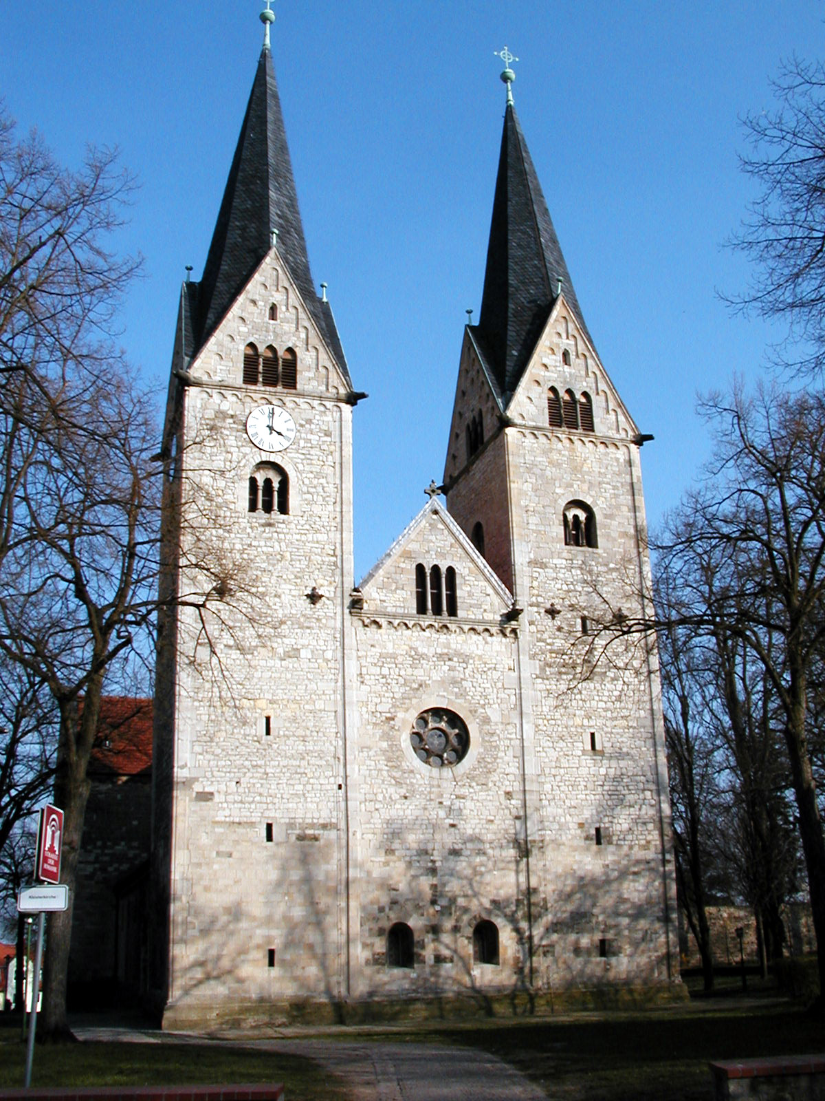 Western-view of the former monastery-church St. George and Pancratius at Hecklingen, Germany. The towers are finished in the late 19th century. The basilika of Hecklingen belongs to the "Road of Romanesque" in Sachsen-Anhalt.